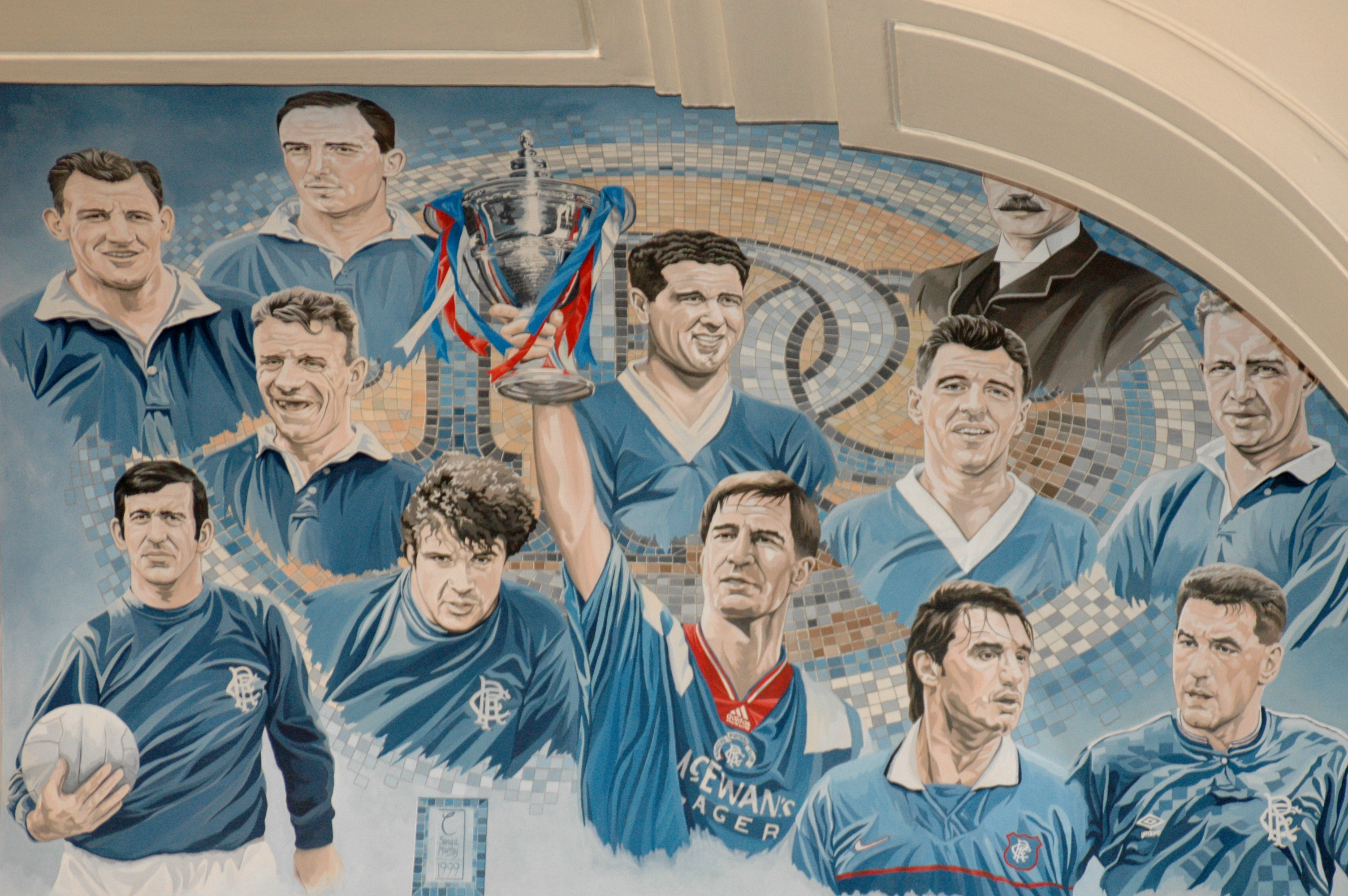 Rangers F.C. crest on a carpet within Ibrox Stadium.